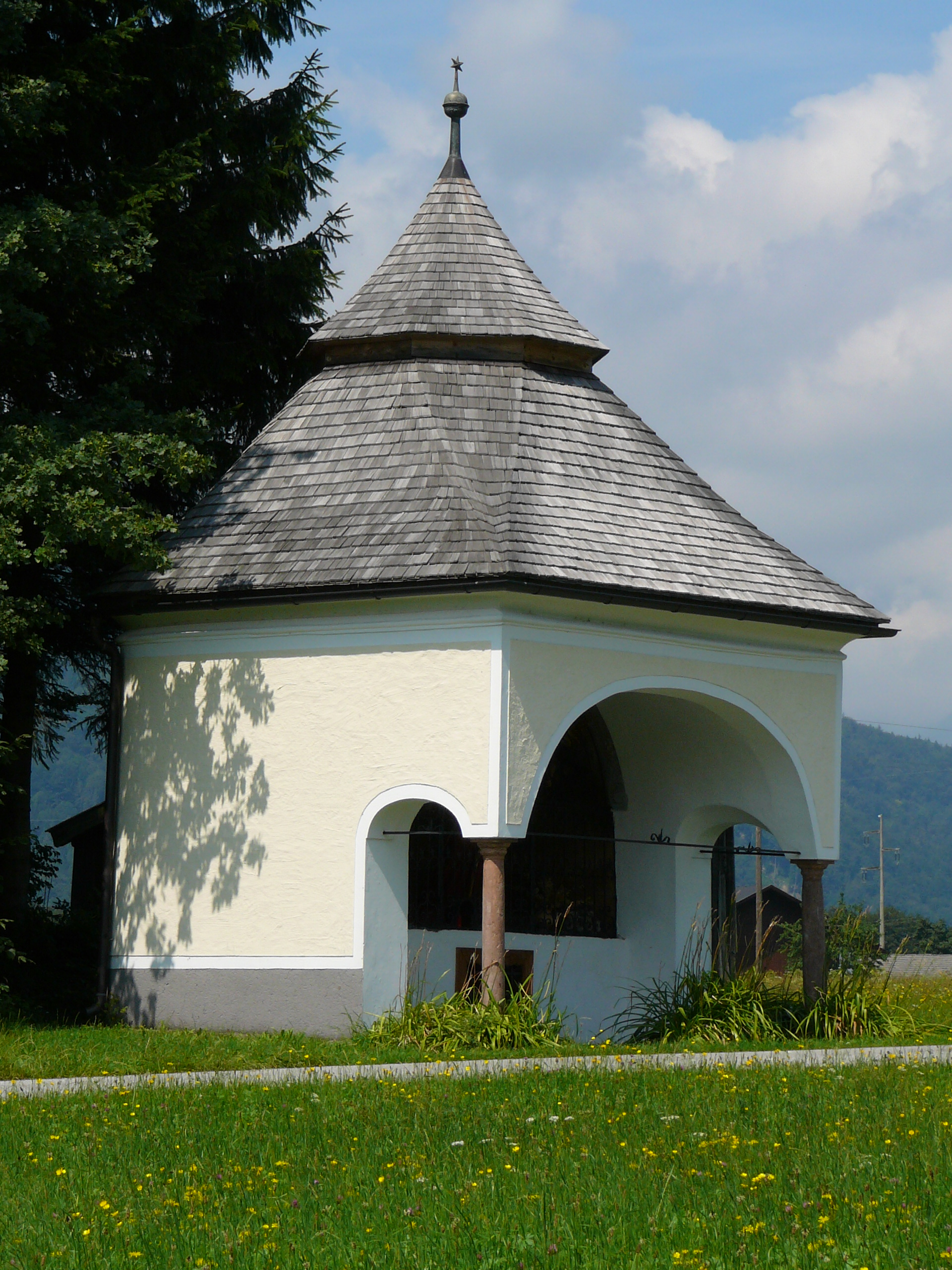 Chapel in Kuchl, Austria